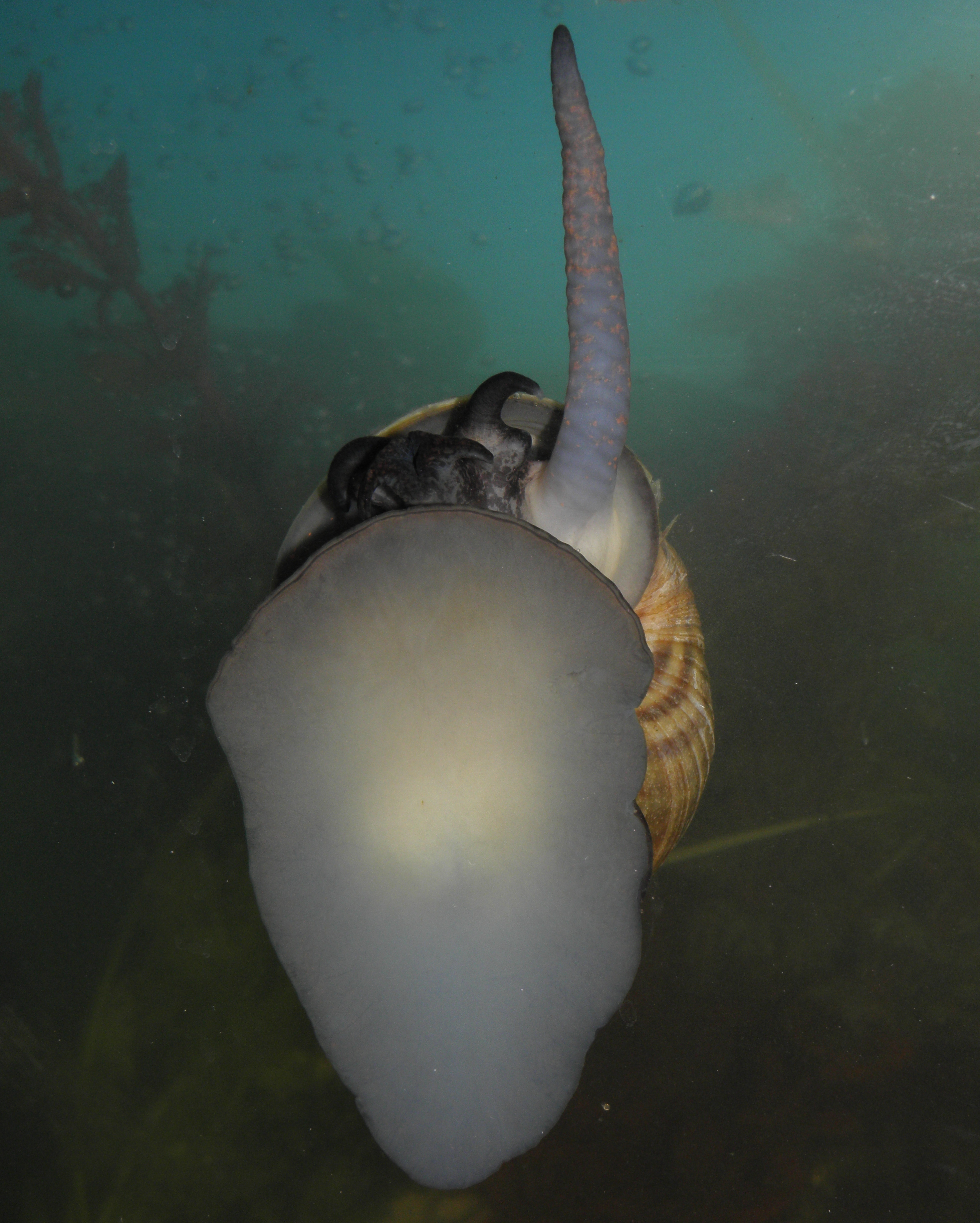 Channeled applesnail (Pomacea canaliculata) siphonout.